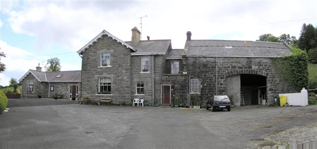 Pettigoe Railway Station No longer in use, but it is now a dwelling. It closed in 1957.